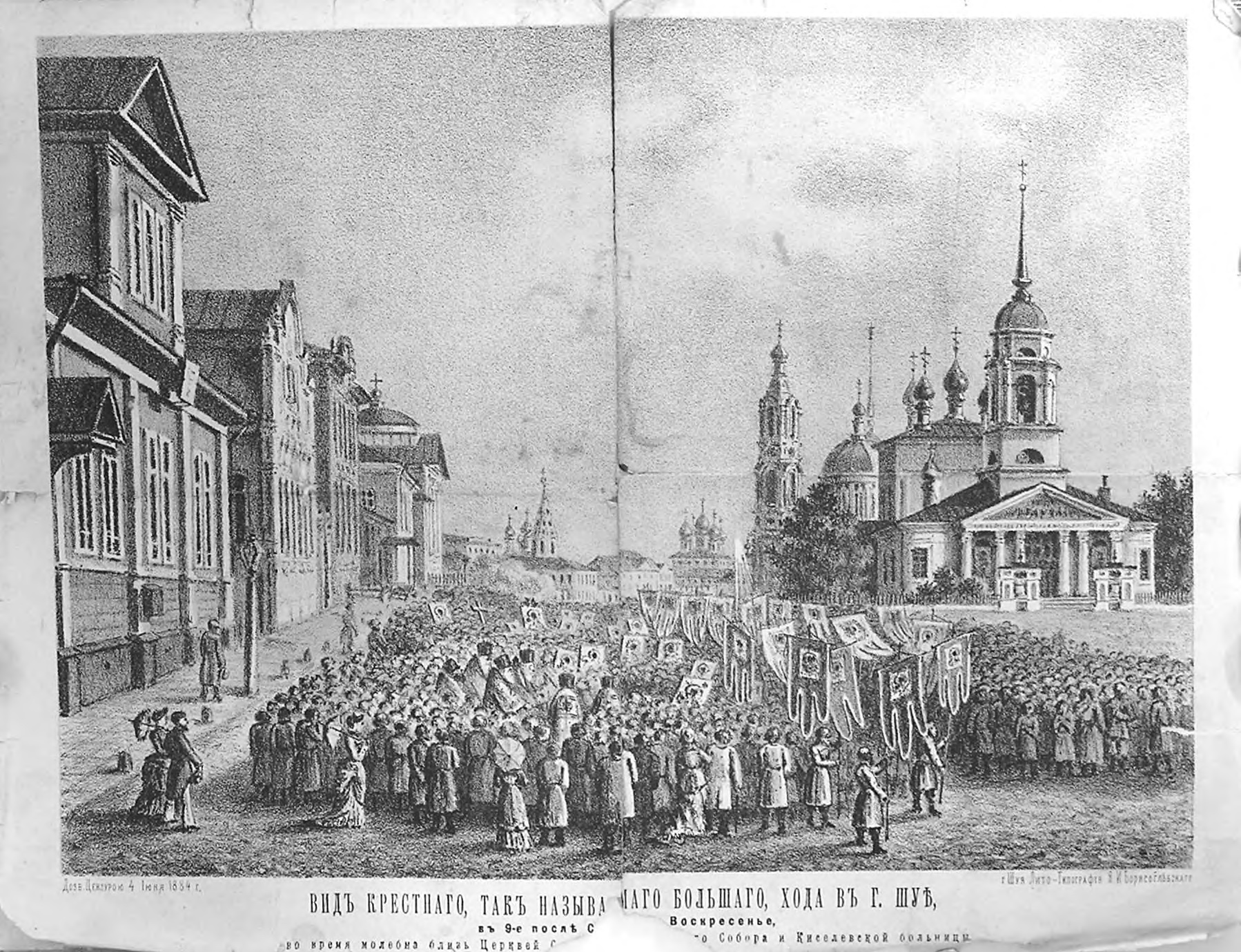 Great Crucession at Shuya. 1884 (?)